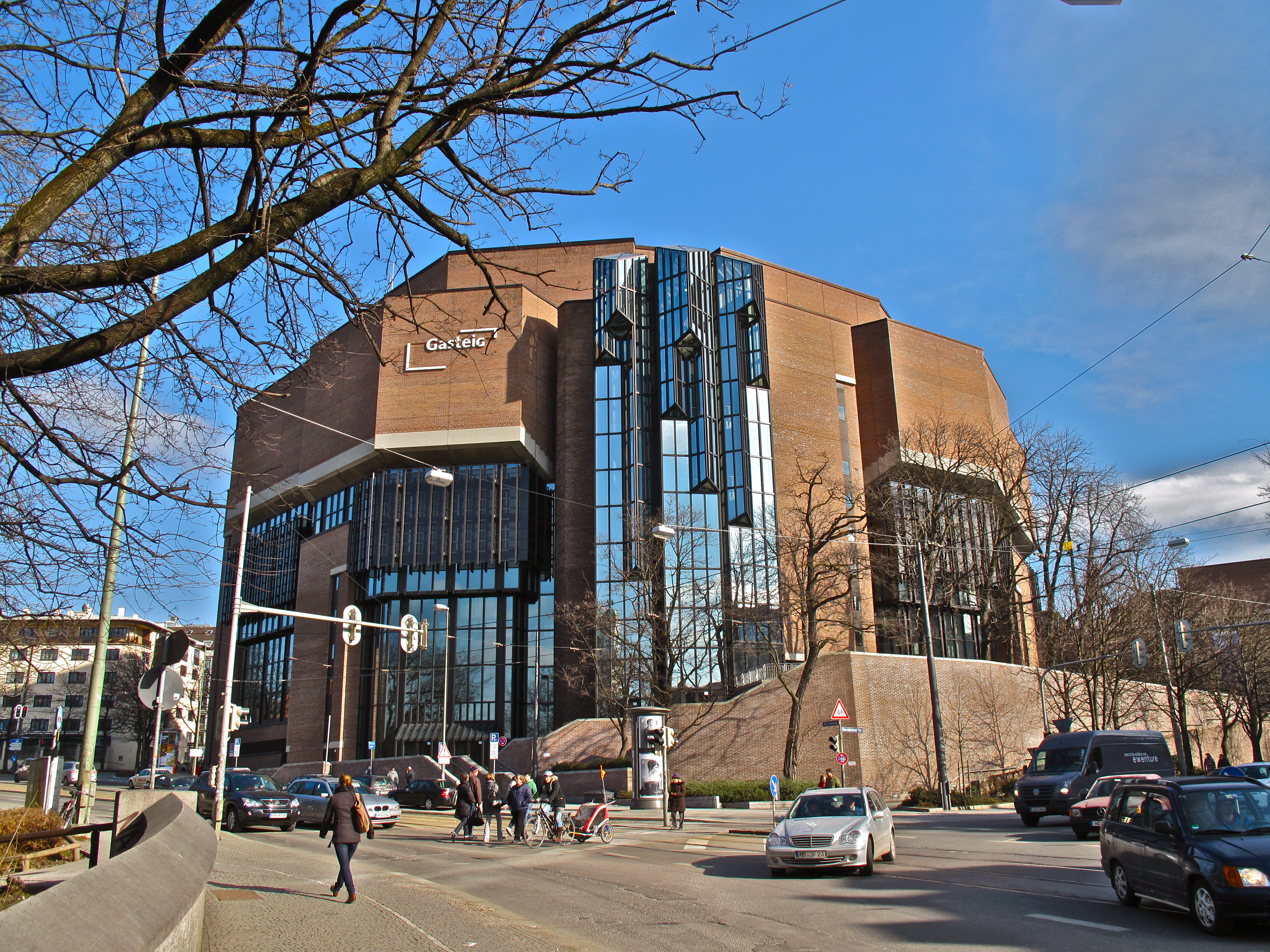 The Philharmonie of the Gasteig (cultural centre of the city of Munich).